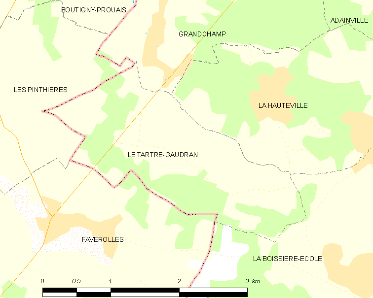 Map of French municipality Le Tartre-Gaudran